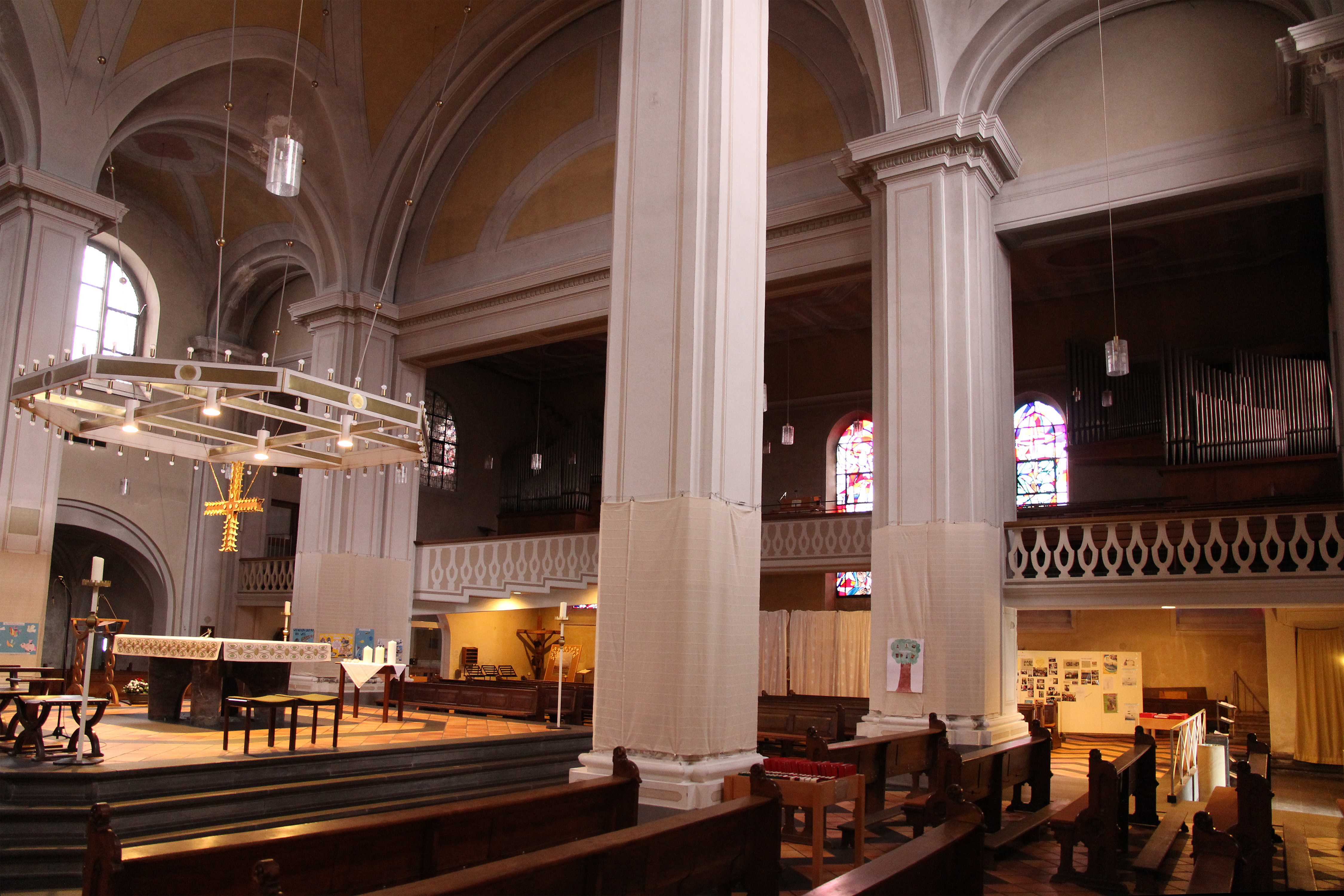 St. Peter church in Koblenz